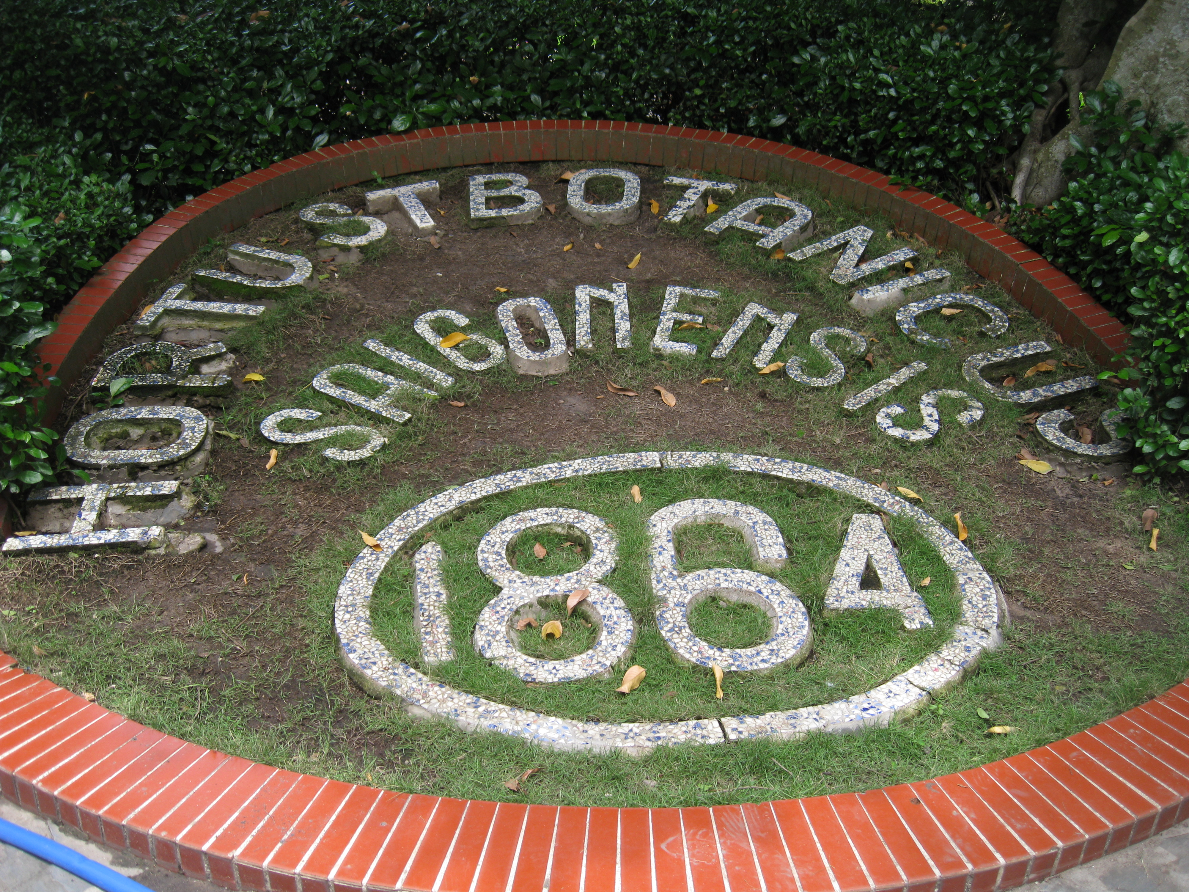 Hortust Botanicus Saigonensis 1864.